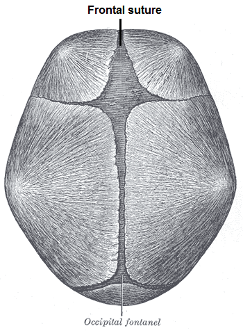 The skull at birth Frontal suture